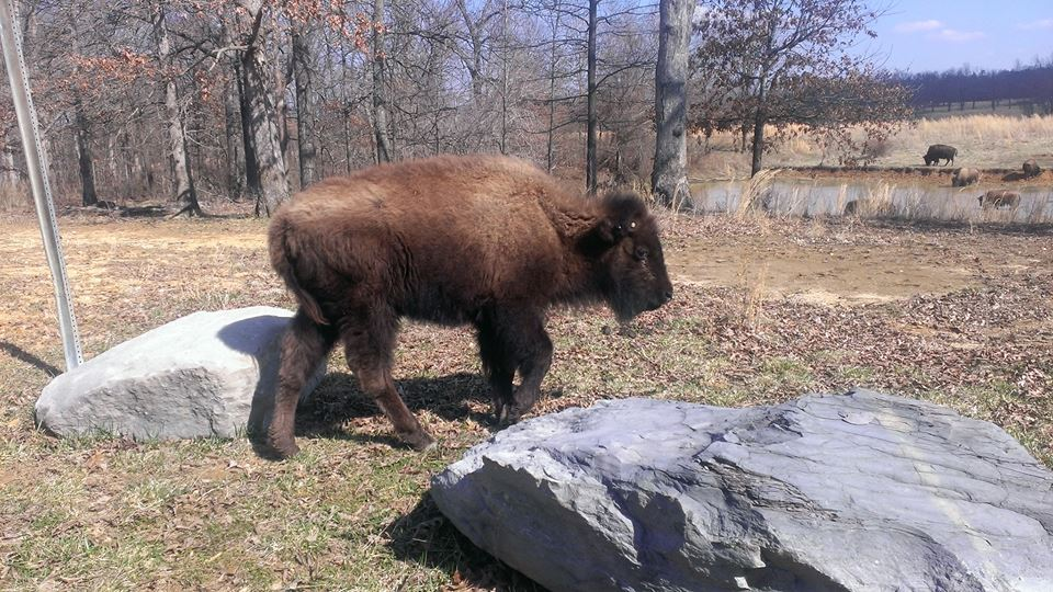 Bison at LBL Elk and Bison Prairie